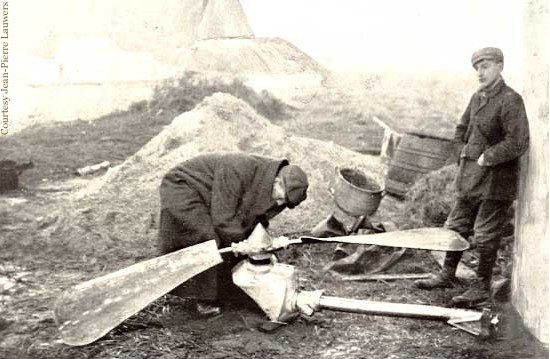 Postcard of a propeller from the Patrie, found in N.Ireland after temporary landfall of the airship before its loss at sea